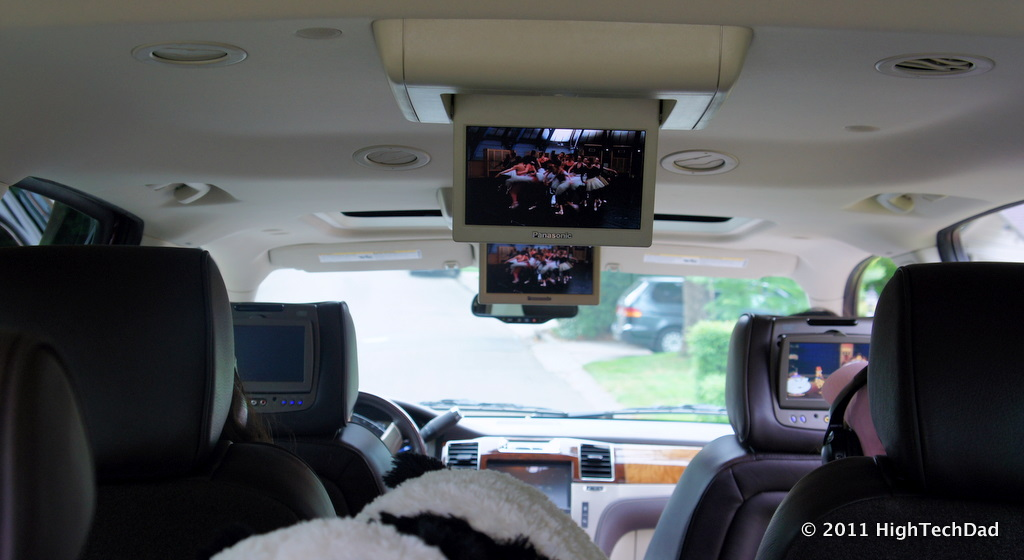 Pictures from a 7-day test drive of the 2011 Cadillac Escalade ESV Platinum Edition. More details and a video can be found at